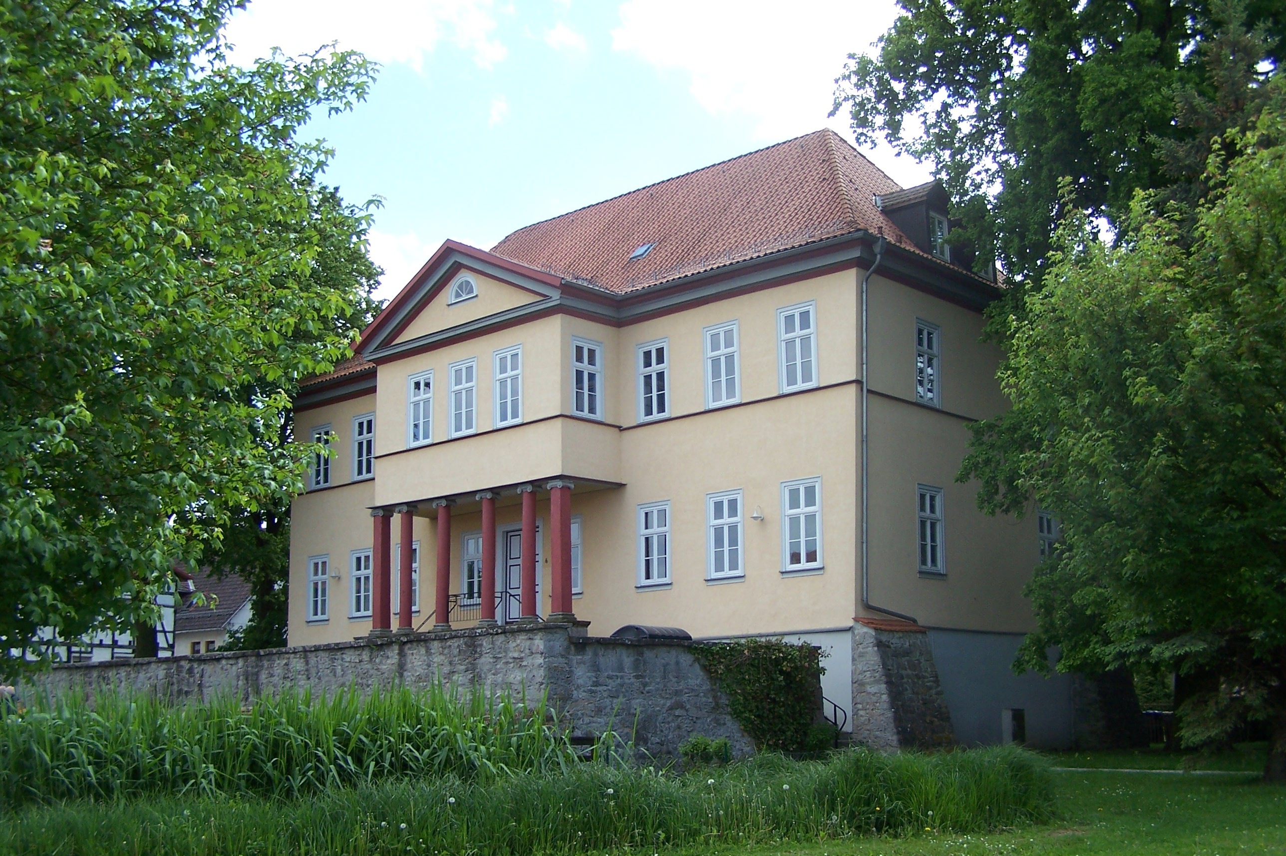 The castle in Berka vor dem Hainich.